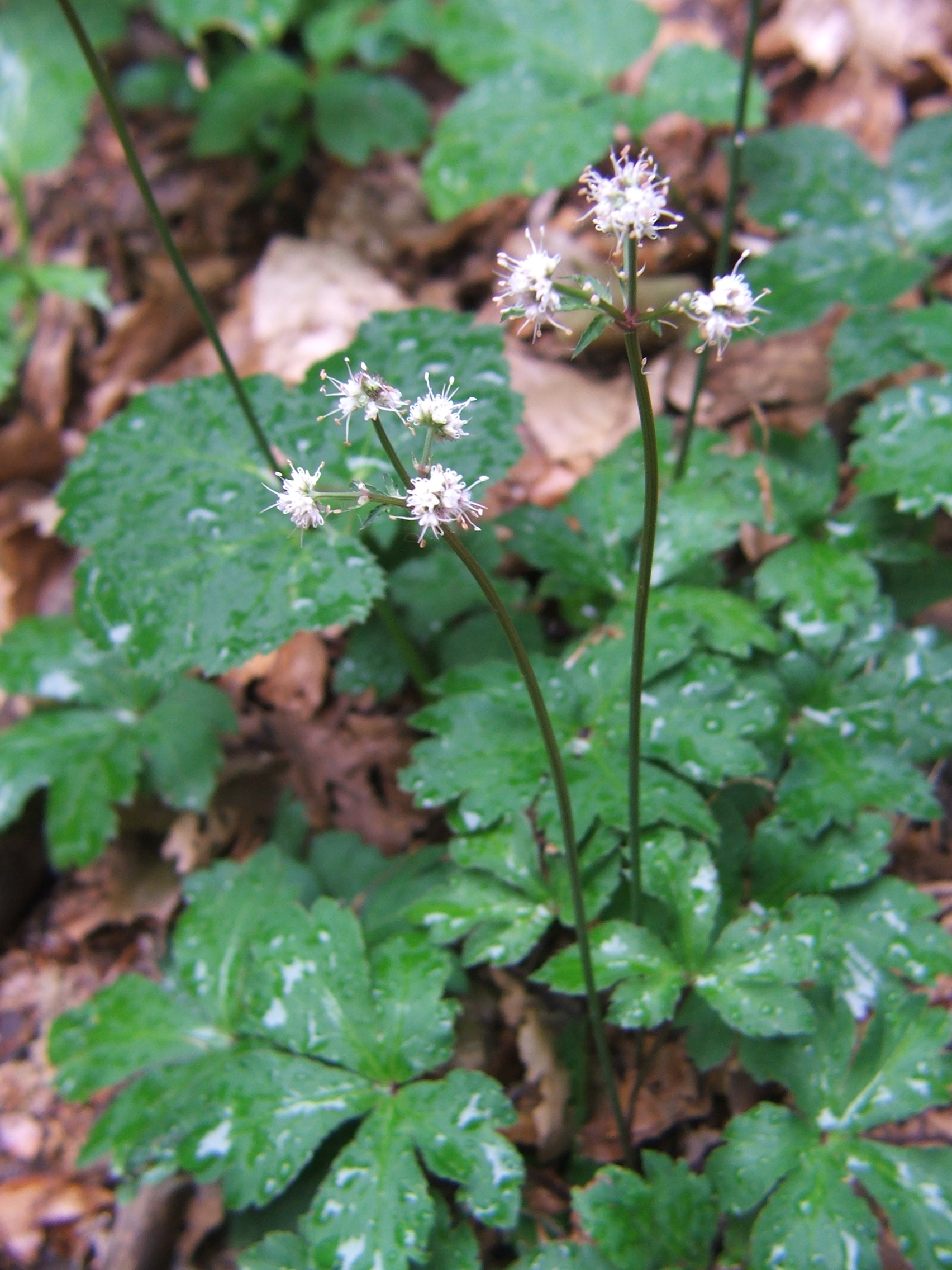 Sanicula europaea